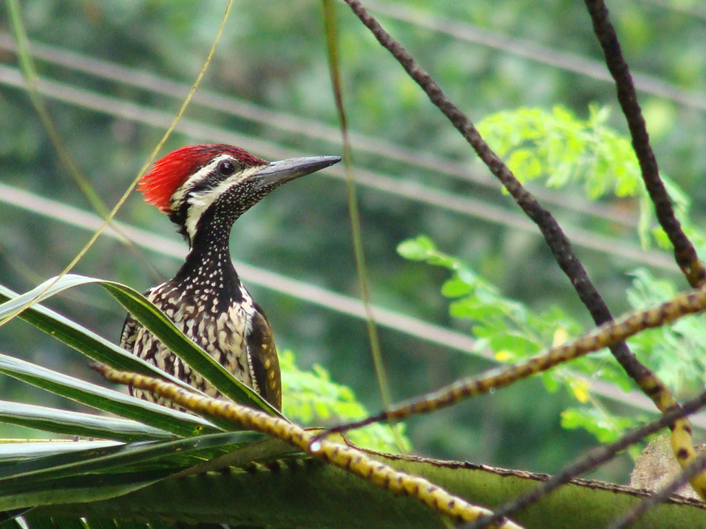 Dinopium benghalense